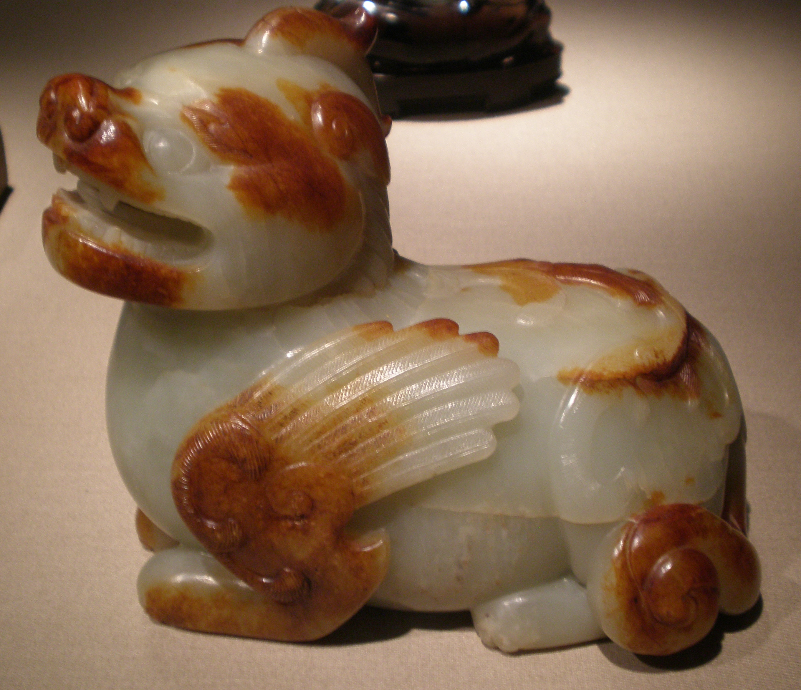 Nephrite carving of a fabulous beast, approx. 1800-1900, Qing Dynasty. On display at the Asian Art Museum in San Francisco, California. B60J837